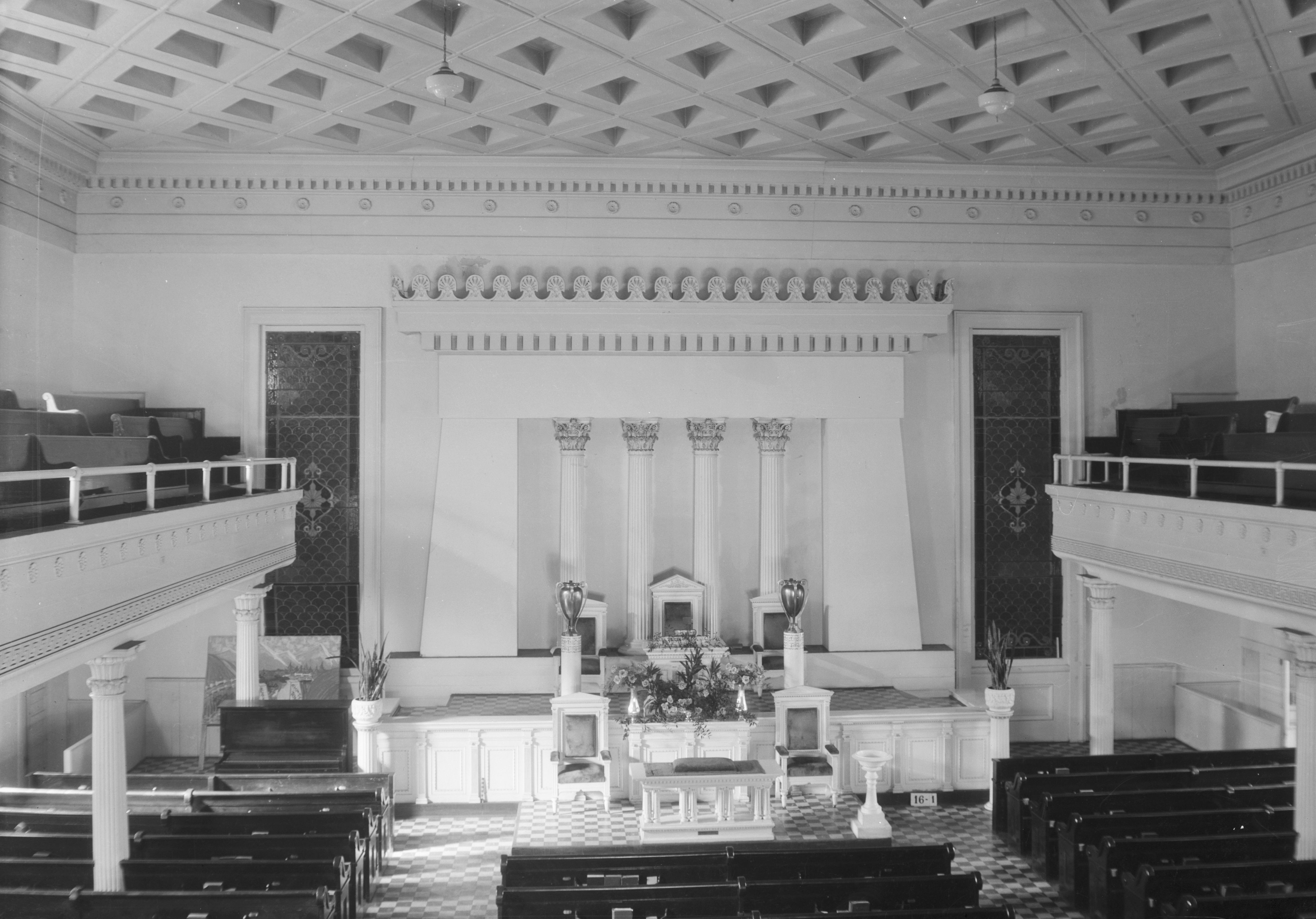 Government Street Presbyterian Church in Mobile, Alabama. AUDITORIUM (TOWARD ALTAR).